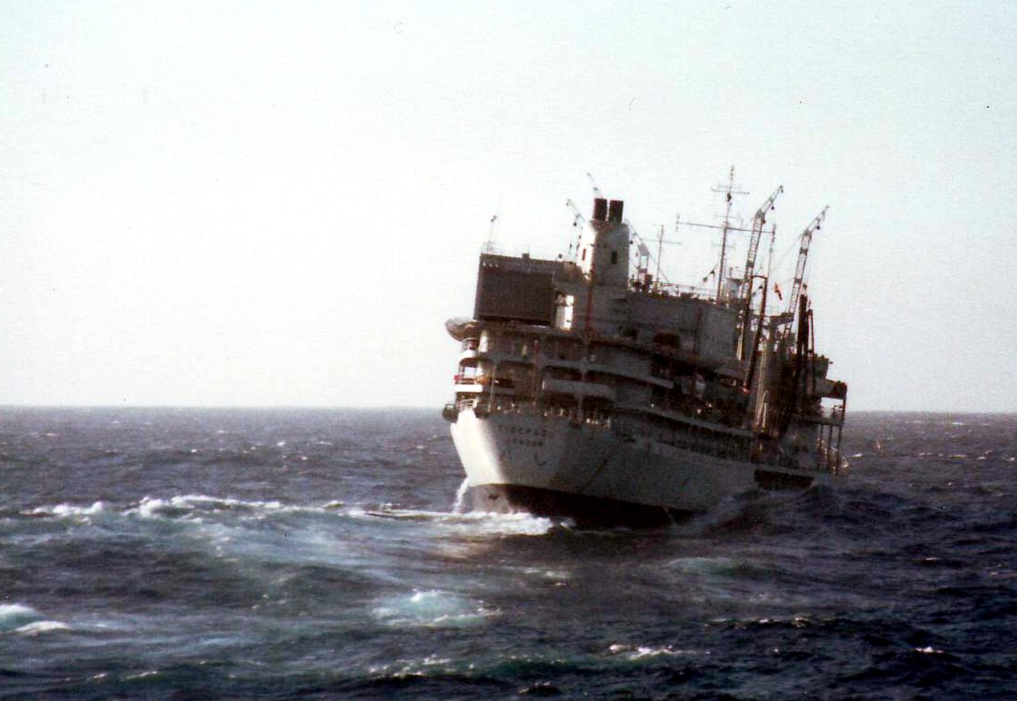 RFA Tidepool in Total Exclusion Zone, during the Falklands War in May 1982.